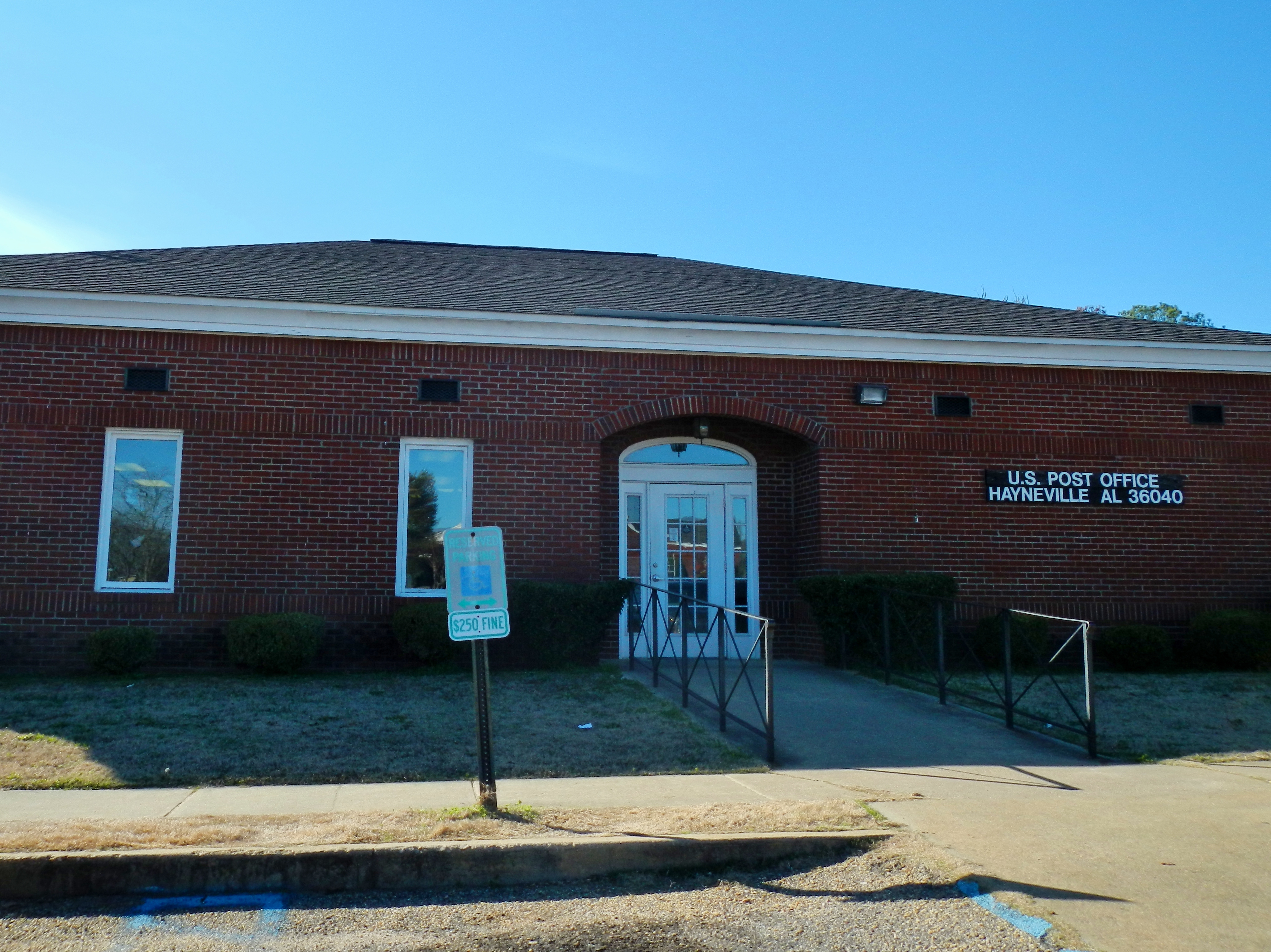 This is a photograph of the Hayneville Post Office in Hayneville, Alabama.